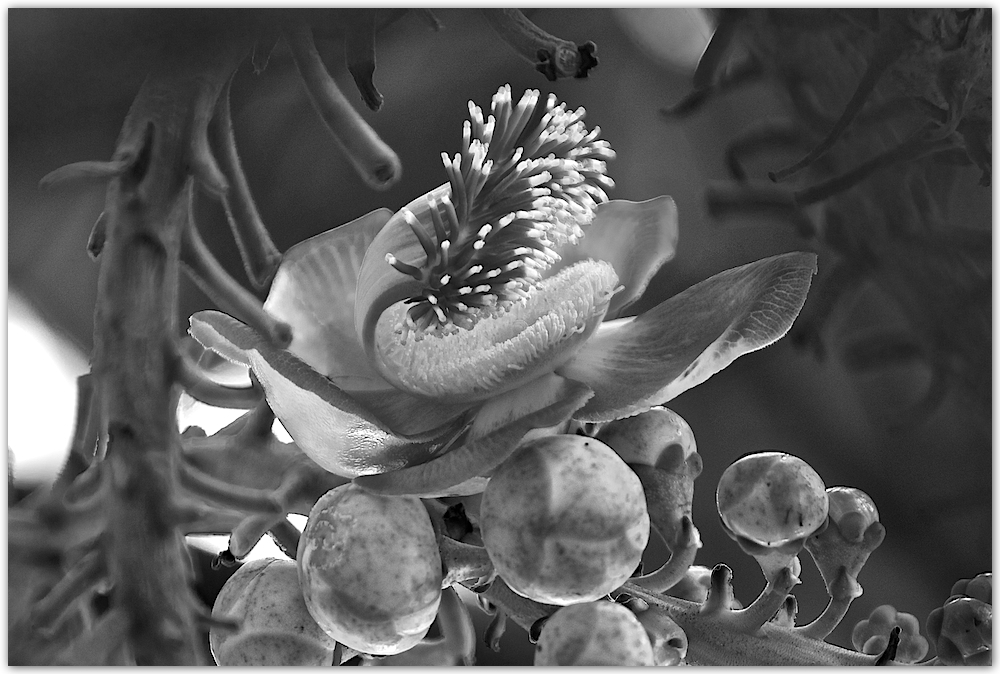 Inflorescence of Canon-ball tree by Dharani Prakash